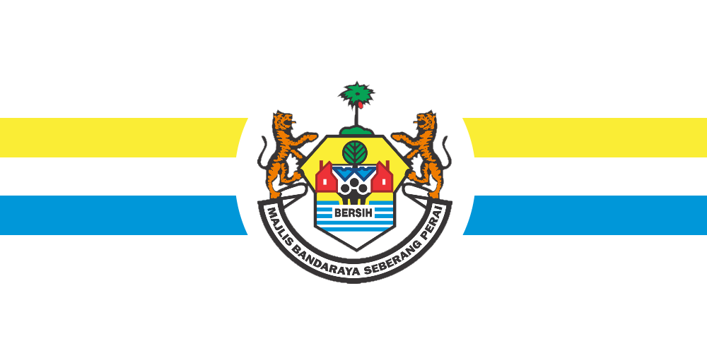 Flag of the Seberang Perai Municipal Council (MPSP), as can be seen from the photographs in this website.